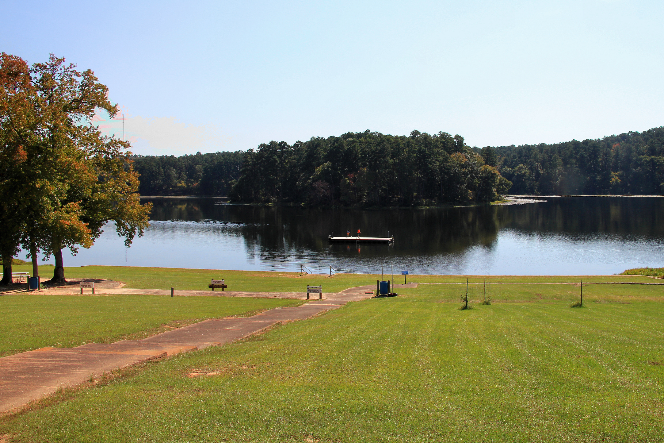 Lake Daingerfield in Daingerfield State Park, Morris County, Texas, United States. The Civilian Conservation Corps built the lake circa 1935-1938.